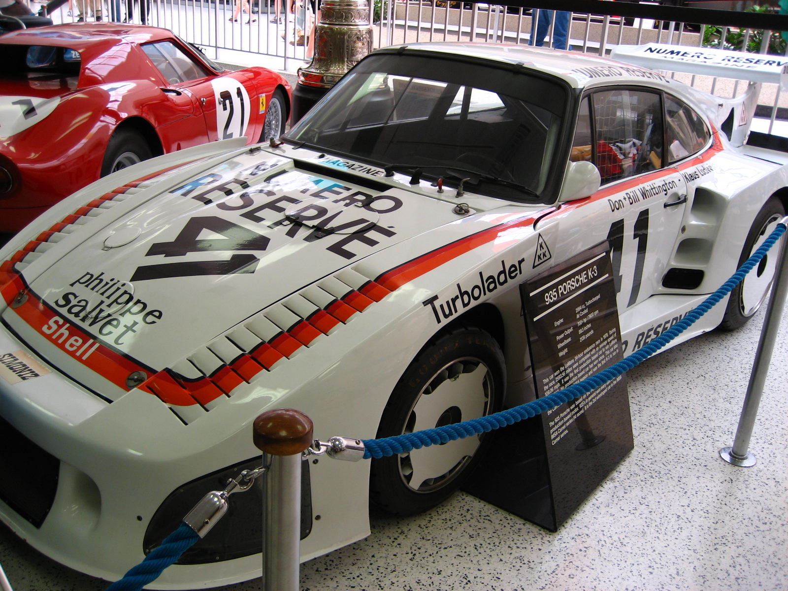 The overall winner of the 1979 24h of Le Mans, the Kremer Porsche 935 K3 of Klaus Ludwig and the Whittington Bros., on display at the Indianapolis Motor Speedway Hall of Fame Museum